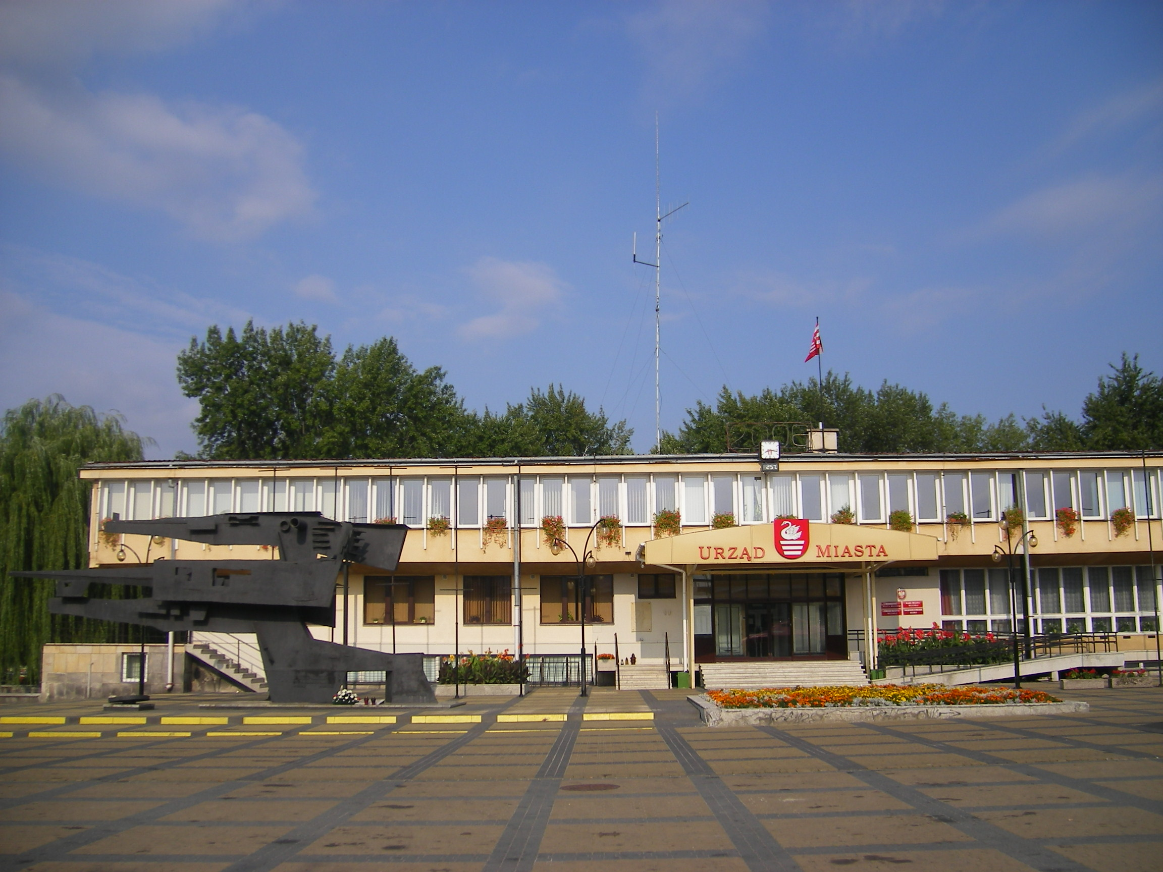 Biłgoraj municipal building